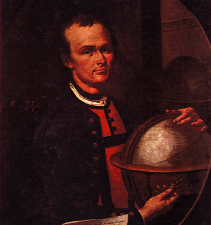 Peter Anich, Oil on Canvas